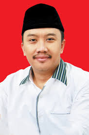 Imam Nahrawi as Minister of Youth and Sports Affairs